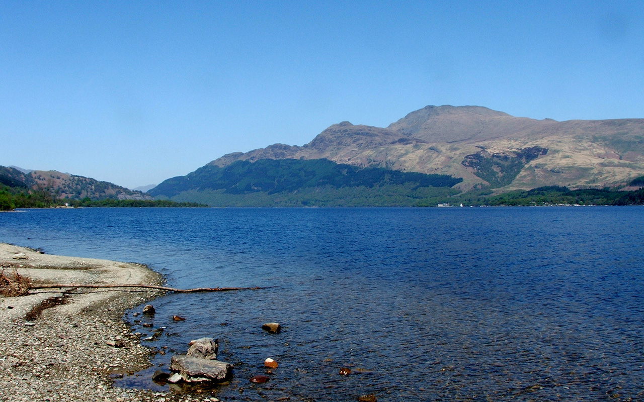 View across Loch Lomond, Scotland, waterline looking North at Ben Lomond